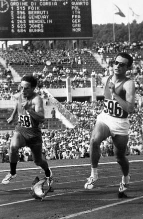 Paul Genevay and Livio Berruti running 200 m at the Rome Olympics, interrupted by a pigeon